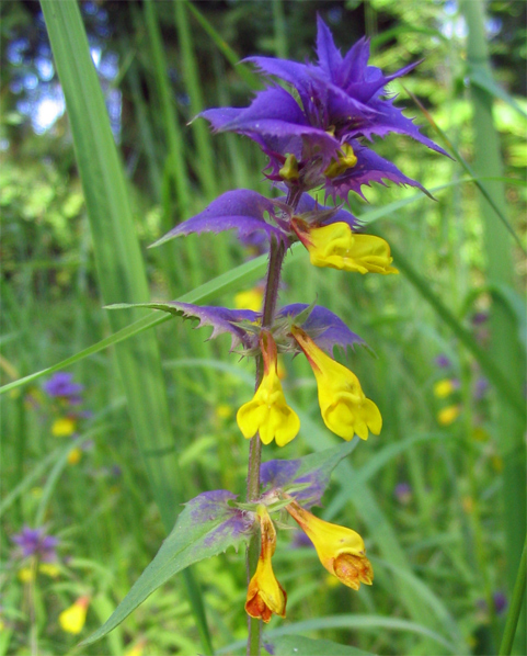 Melampyrum nemorosum. Photo taken by me 2004-08-04.